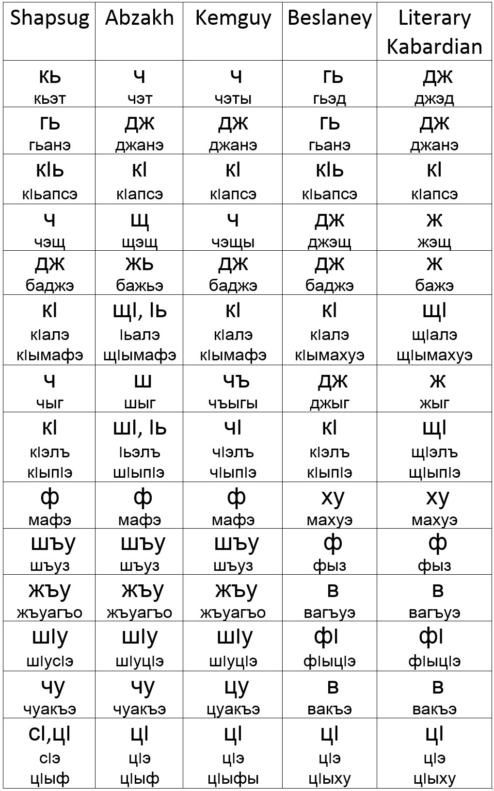 Circassian Dialects Differences English 2